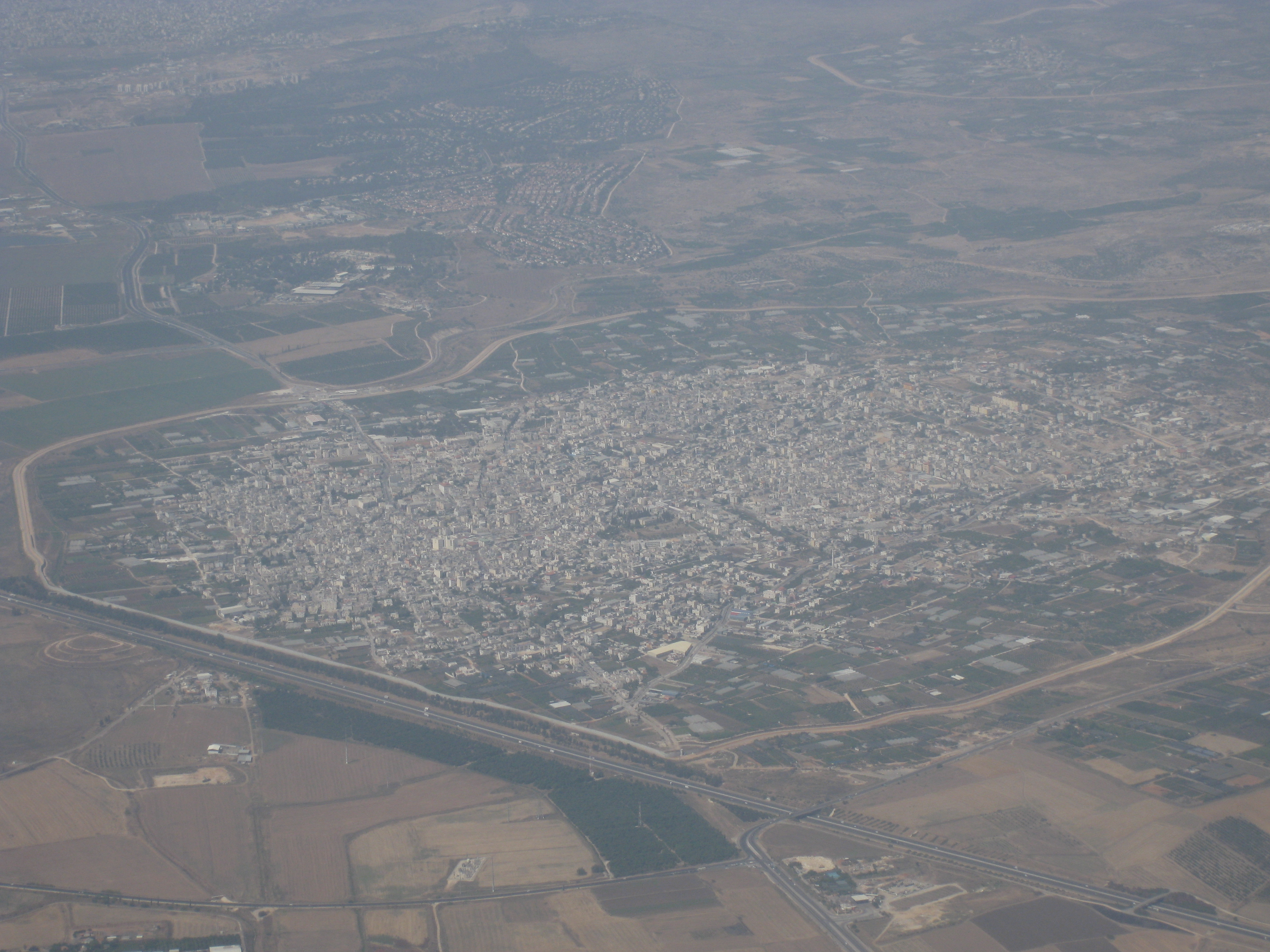 Aerial photographs of Israel